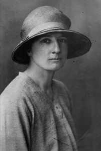 Ina Boyle